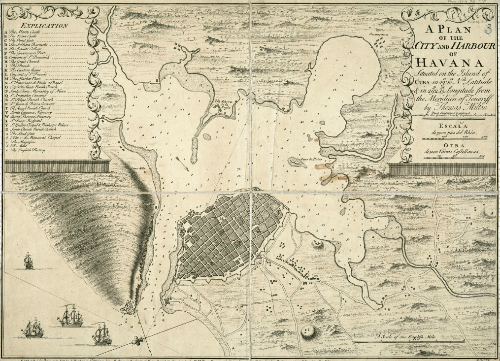 A plan of the city and harbour of Havanna situated on the island of Cuba Author: Milton, Thomas Date: 1739 Dimensions: 44.0 x 59.0 cm. Scale: Scale not given